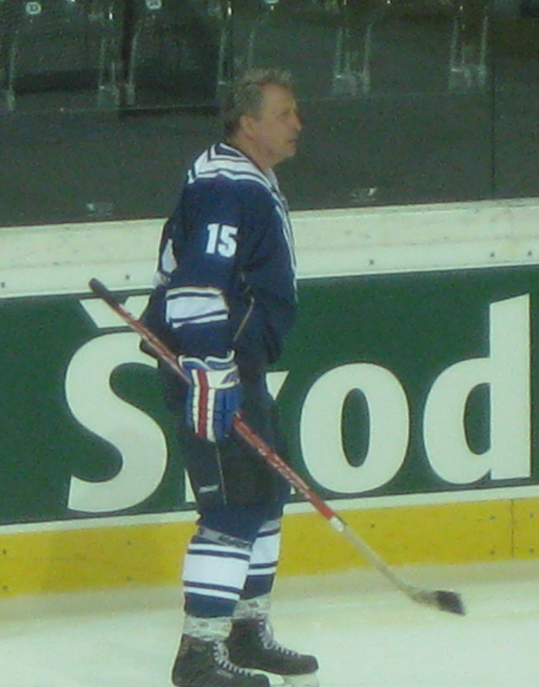 Alexander Yakushev in Bern. Switzerland